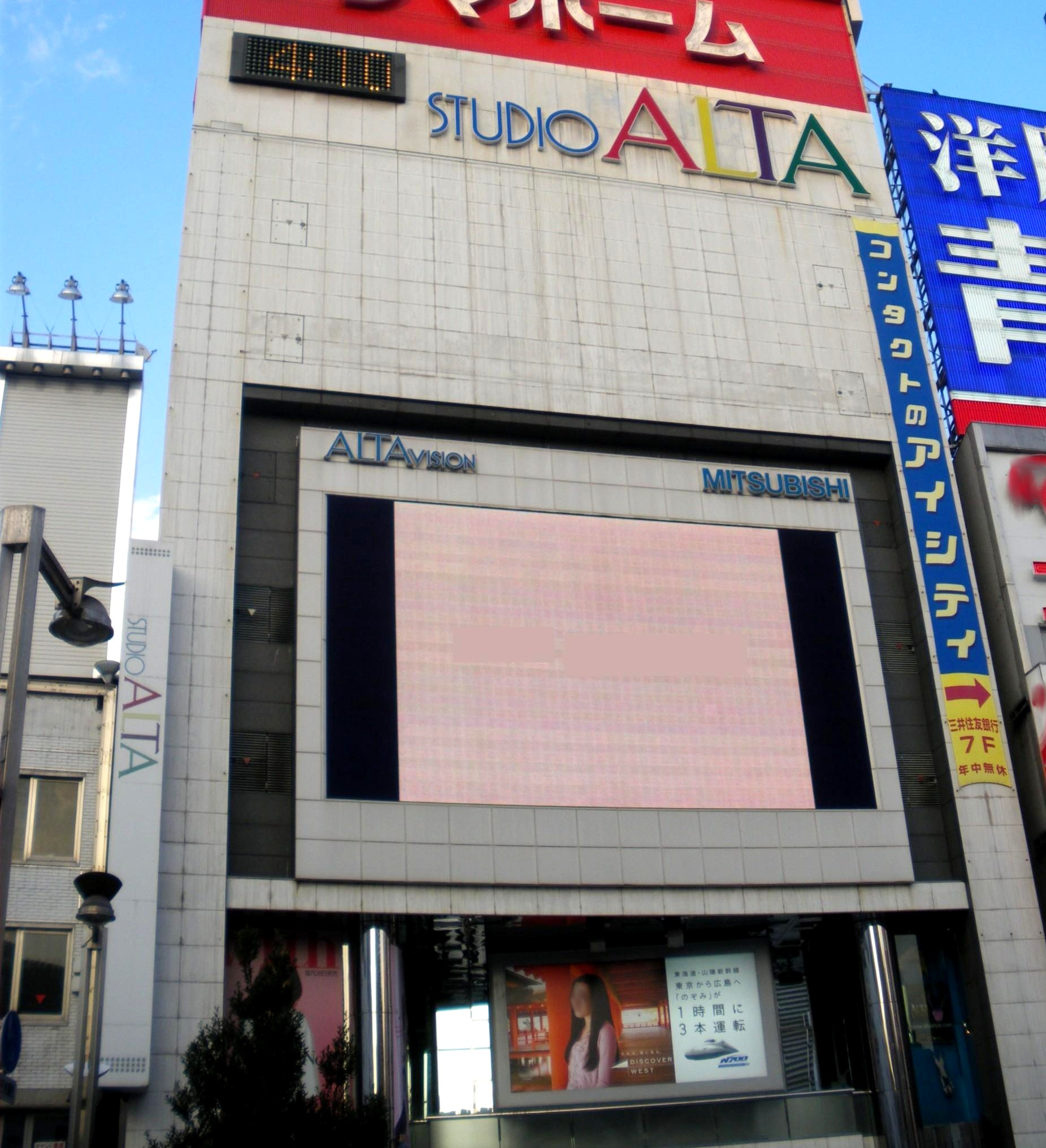 A photo of studio ALTA,Shinjuku,Shinjuku-ku,Tokyo,Japan.Studio ALTA is a famous building for recording "Waratte iitomo!",which is a very popular program at noon in Japan. Also ALTA is a famous place where waiting for persons at Shinjuku.